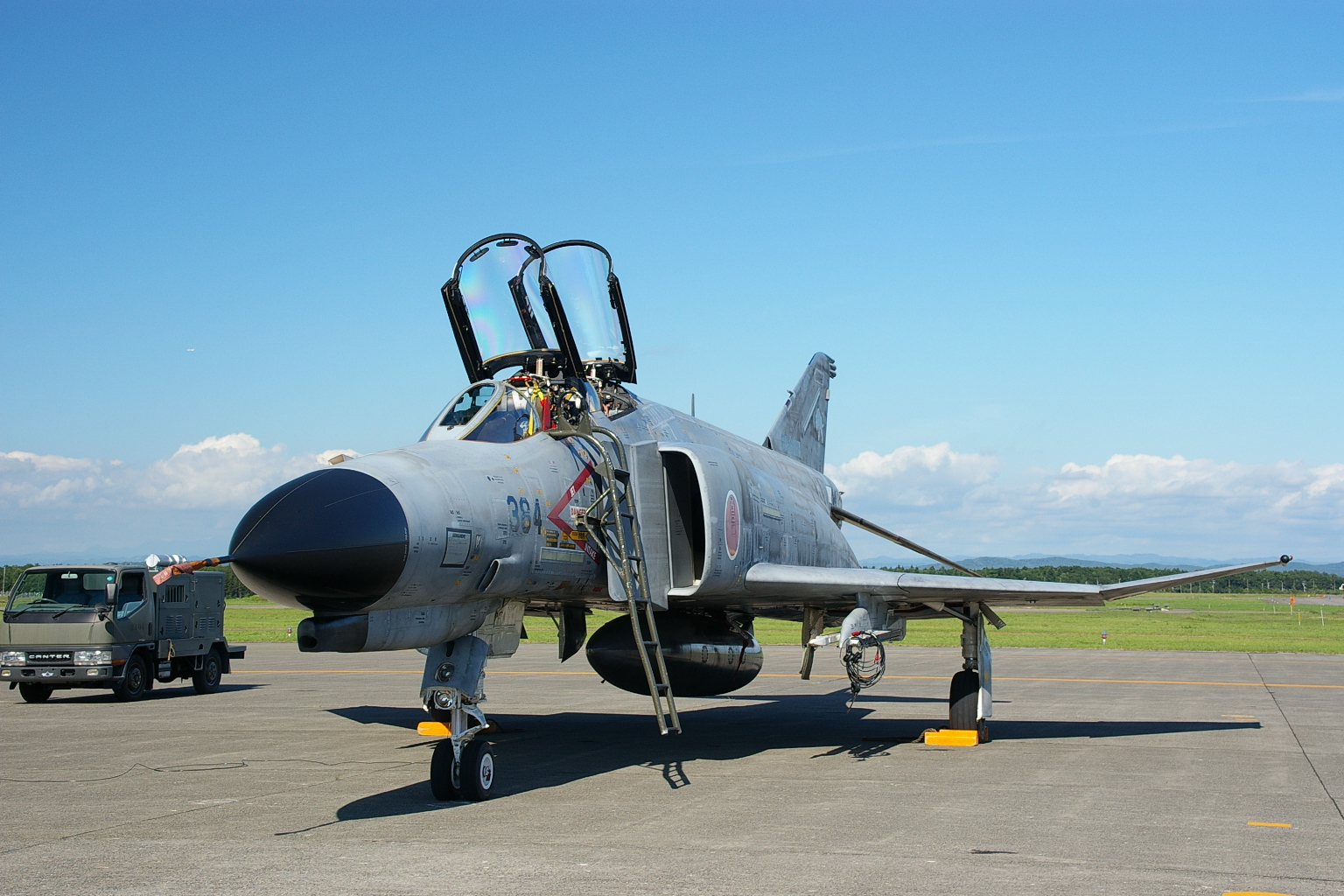 Japan Air Self Defense Force, F-4EJ kai Phantom.